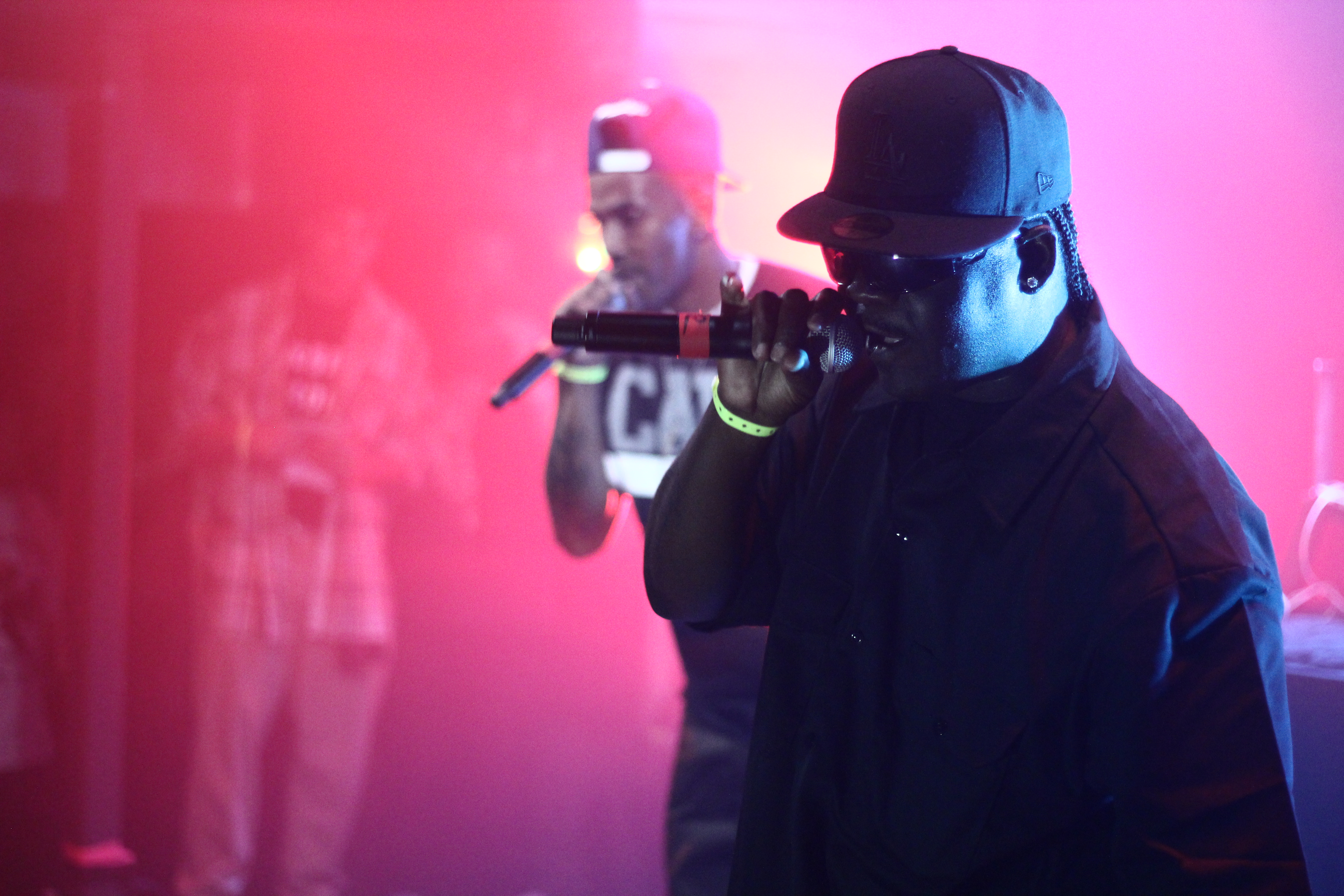 Concert of 2nd II None, Southcide 13 and South Central Cartel at the Petit Bain, Paris, 14 June 2014.